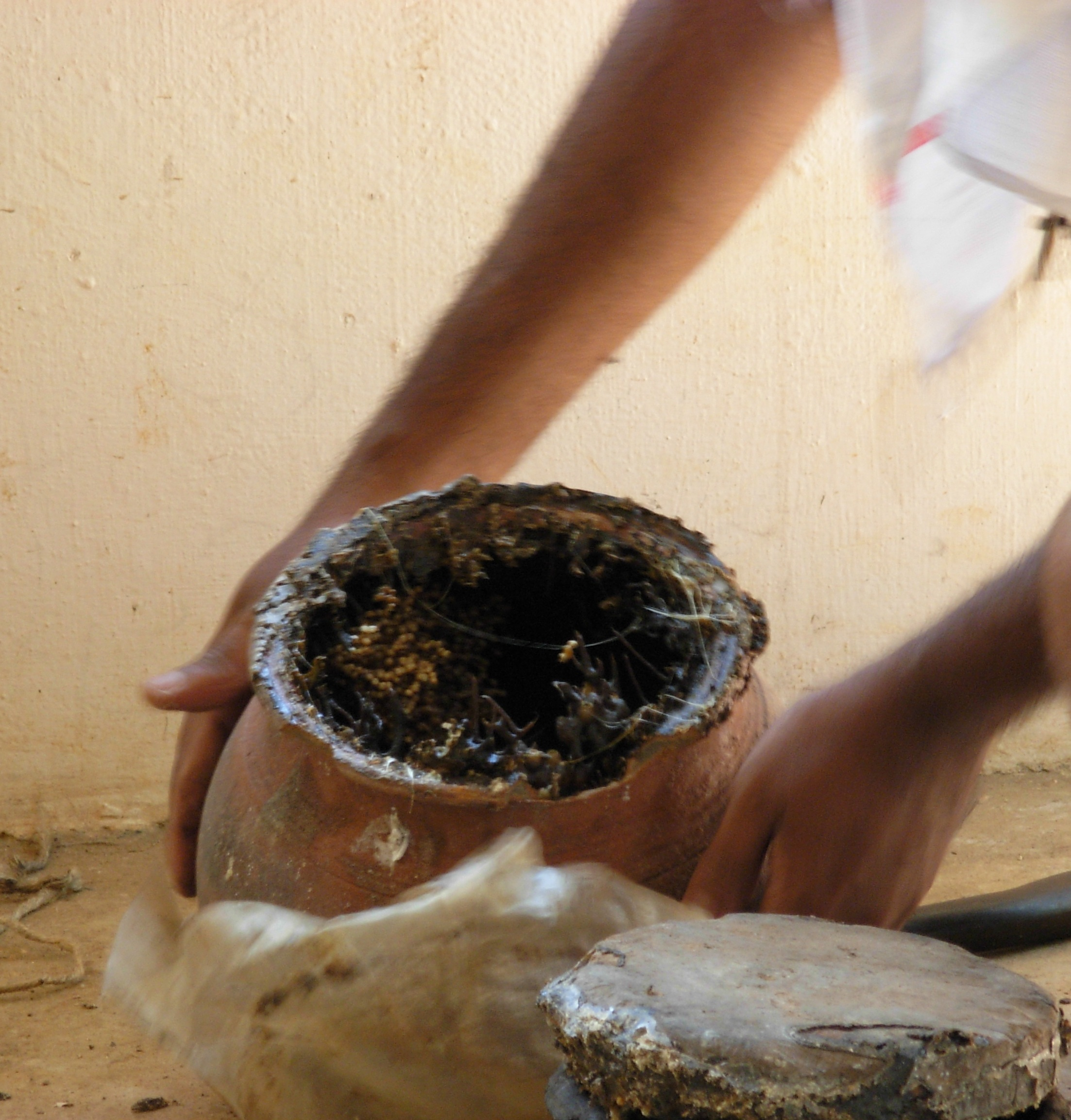 A pot in which bees were grown